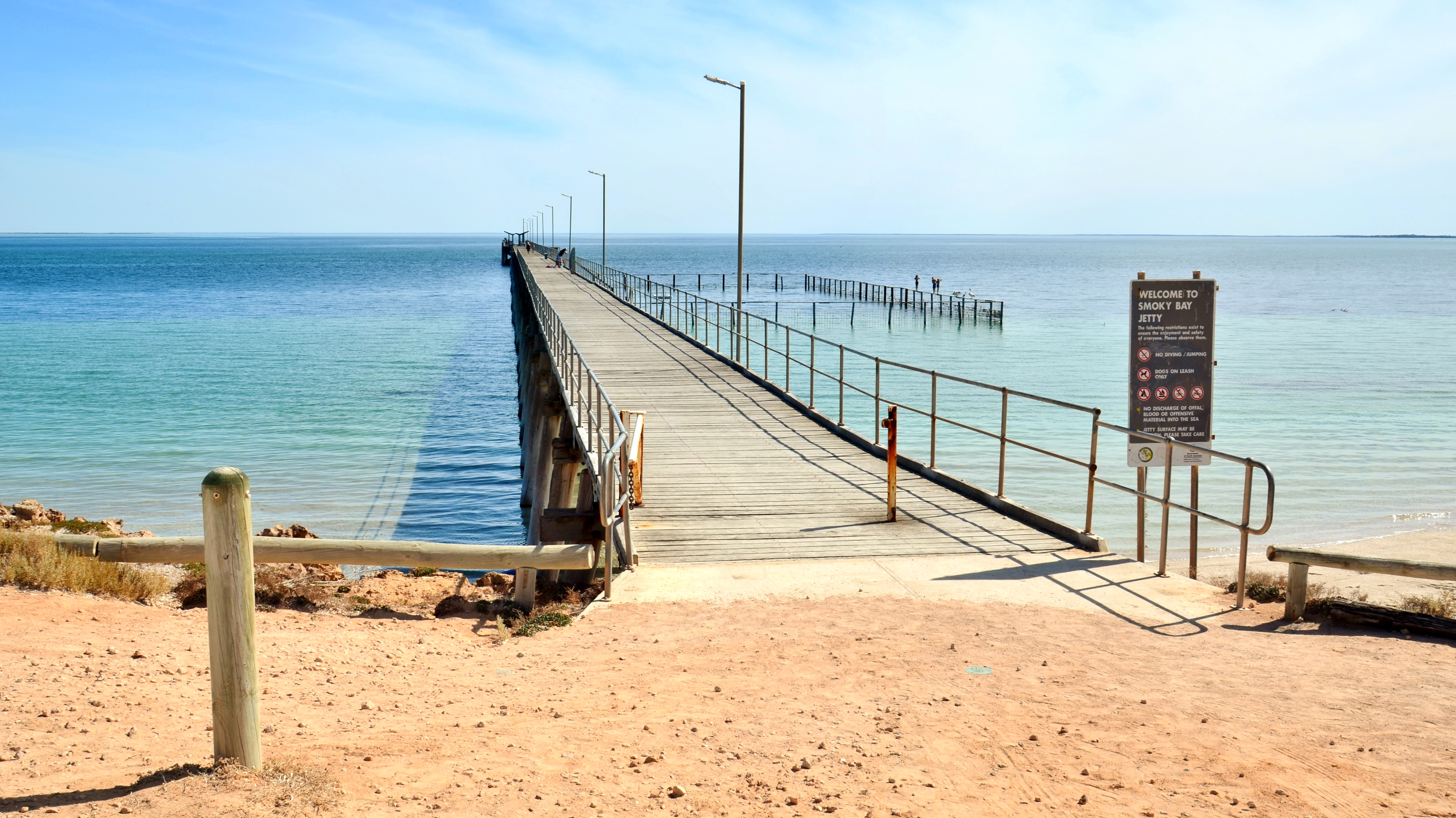 View of the Smoky Bay Jetty, Smoky Bay, South Australia